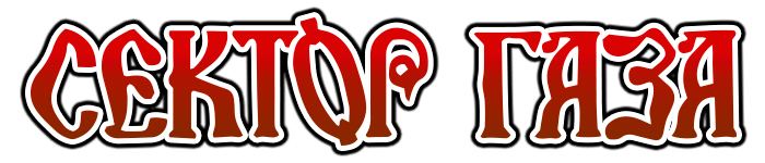 The logo of the group "Sector Gaza".